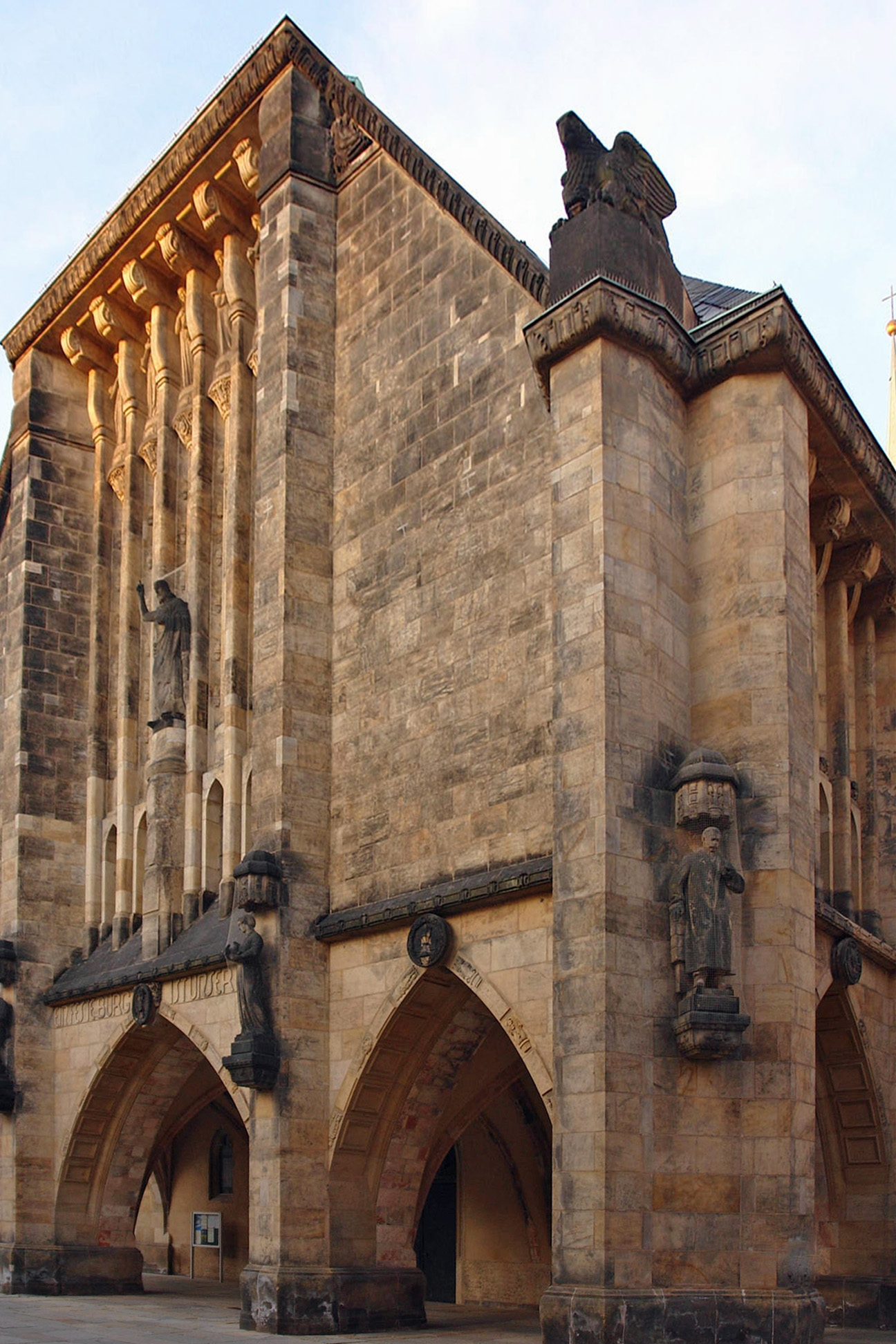 Jakobikirche, Chemnitz, Saxony, Germany. Front side.